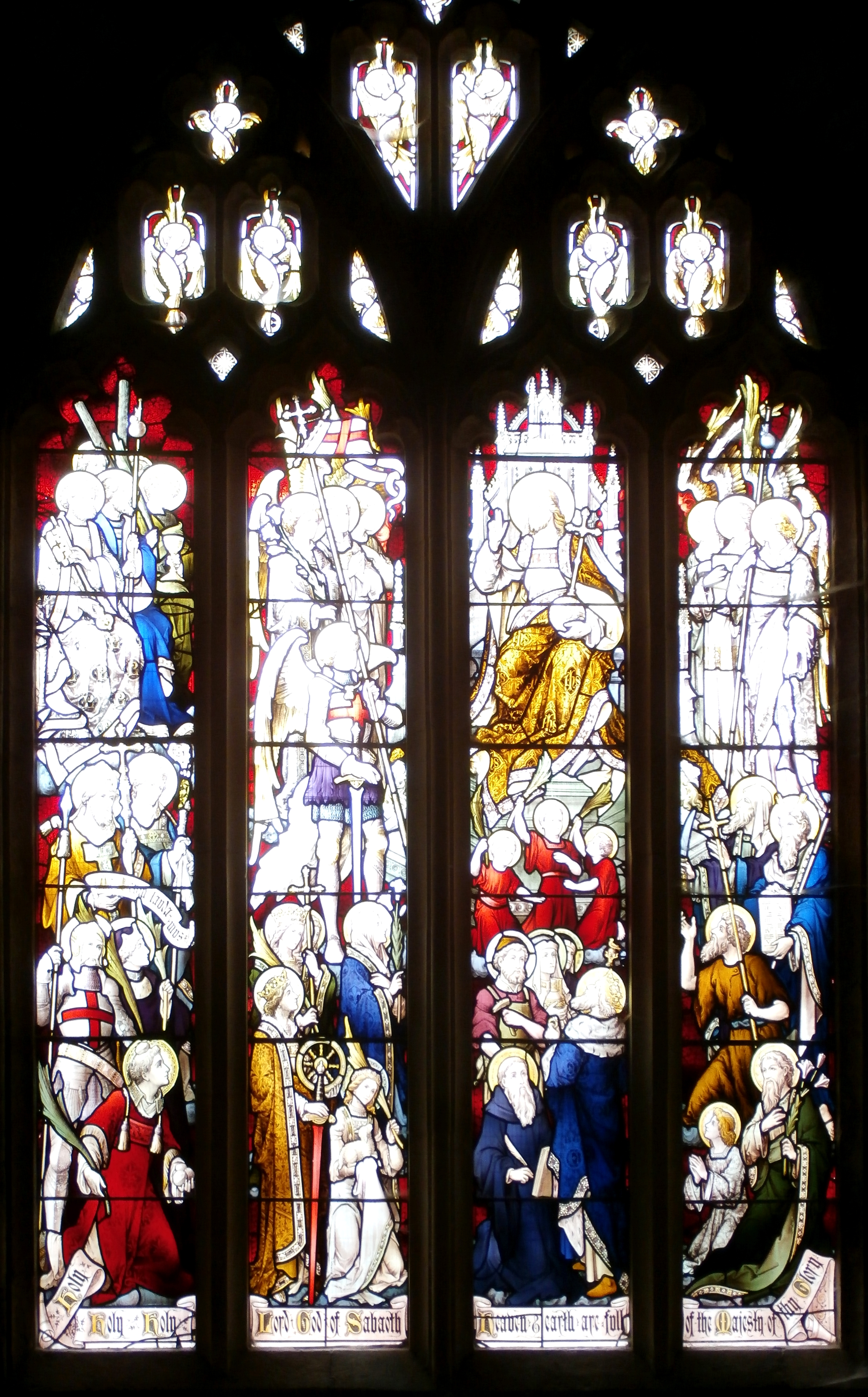 West window of St Hieritha's parish church, Chittlehampton, Devon. A brass plaque in the church relating to this window is inscribed: "To the glory of God and in devoted memory of William Thomas Hodgetts Hodgetts only son of William Wylly Chambers, Captain RN, who died at Hudscott in this parish December 14th 1867. This window is dedicated by his only child Mary Mabel Chambers Hodgetts July 2nd 1893". The glass is by Hardman & Co. .